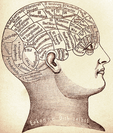 Phrenologie Test Version - Please DO NOT DELETE within 48hrs from any last change—Wolfgang 13:23, 22 February 2006 (UTC)